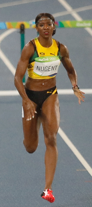 Rio de Janeiro - Dalilah Muhammad, dos Estados Unidos, vence os 400m com barreiras nos Jogos Rio 2016, no Estádio Olímpico. (Fernando Frazão/Agência Brasil)